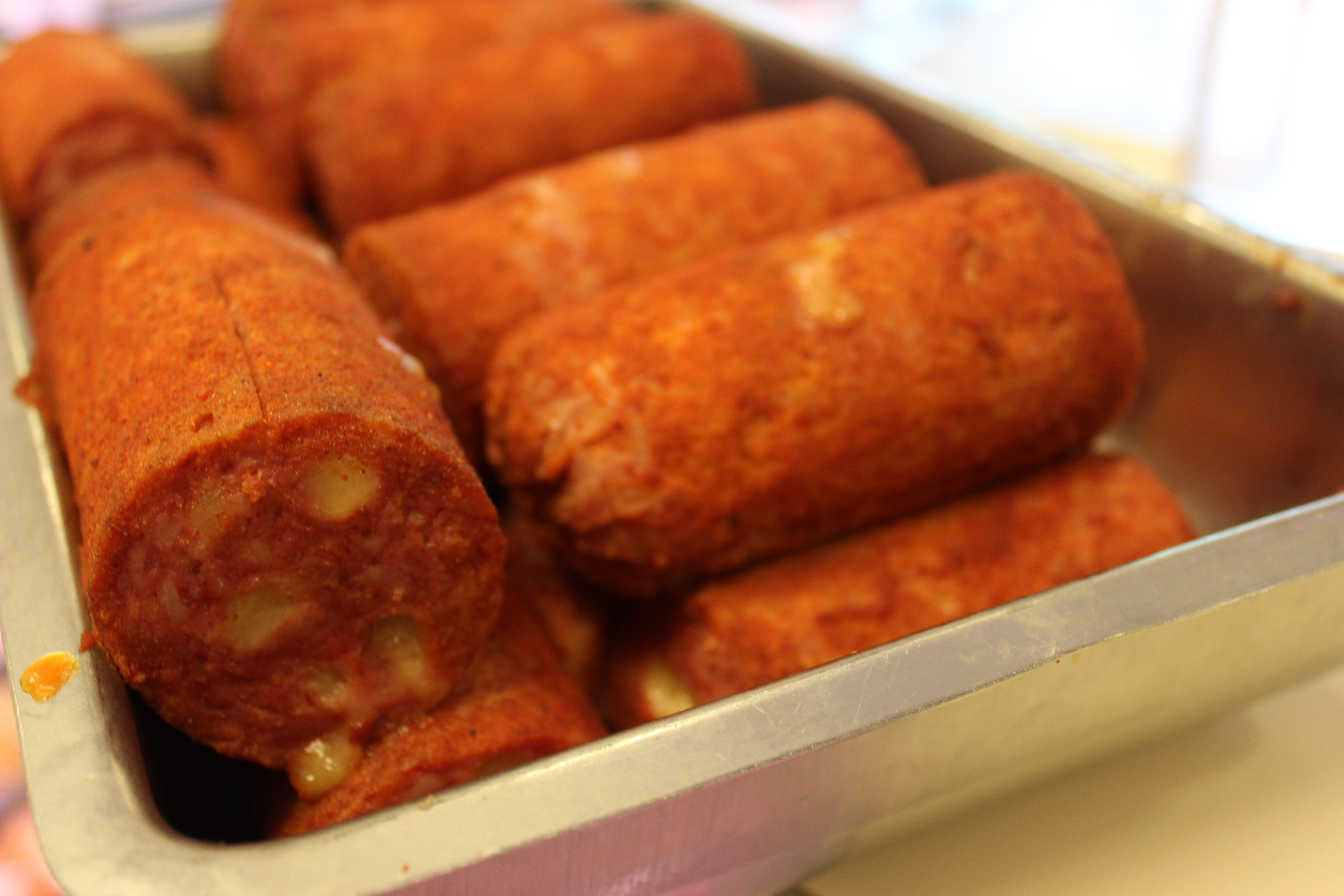 Grillworst met kaas